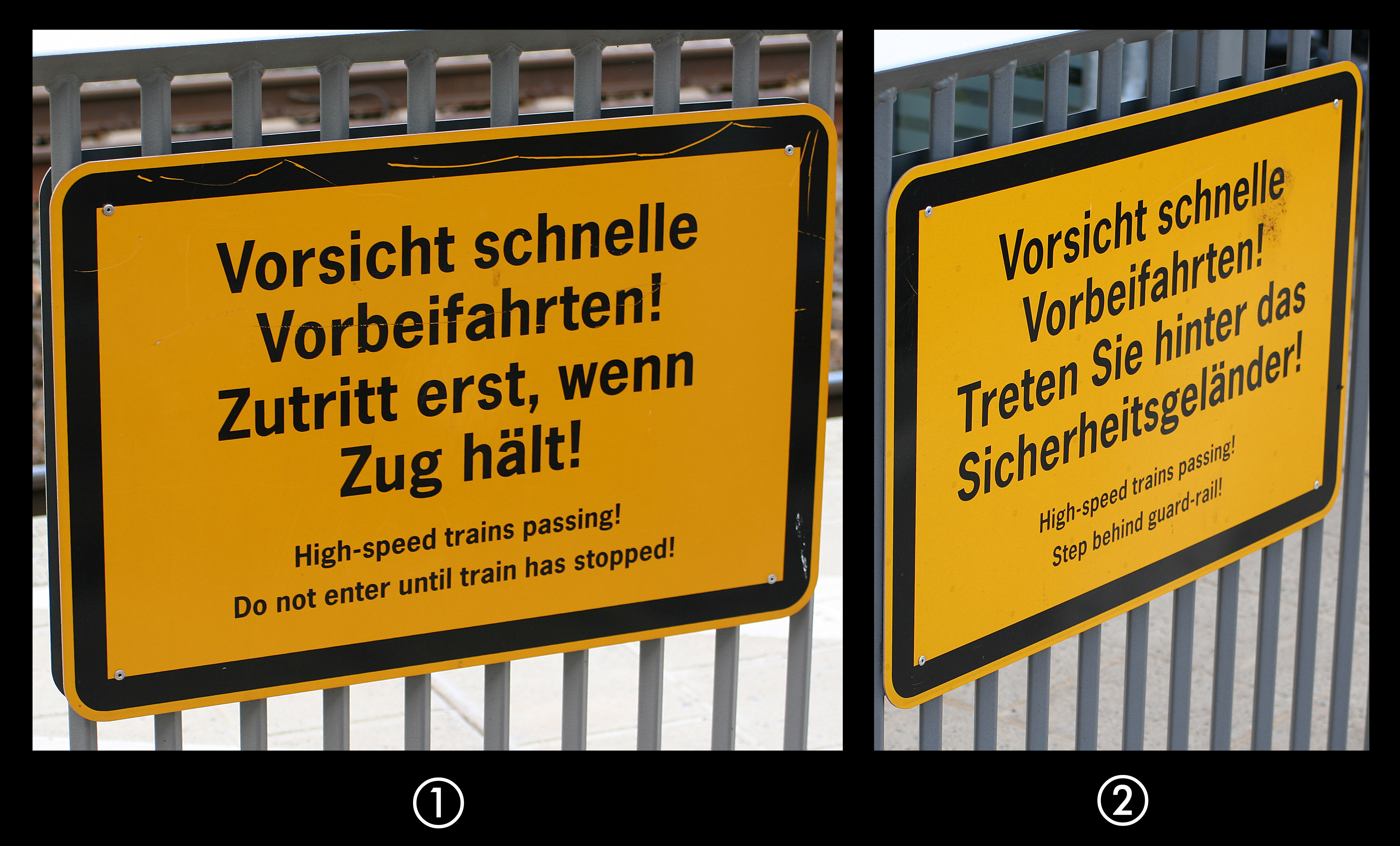 Signs on the platform barriers at the train station of Paulinenaue, Berlin-Hamburg high-speed railway line. Sign #1 points towards the platform (where passengers should wait until trains have come to a full stop), while #2 points towards the tracks (where passengers are not permitted, unless they board a train or alight from a train that has come to a full stop)